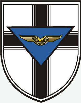 Internal coat of arms of the Bundeswehr (Armed Forces of the Federal Republic of Germany). → Remarks on naming and categorization scheme Wappen der Luftwaffenamtes (Bundeswehr)